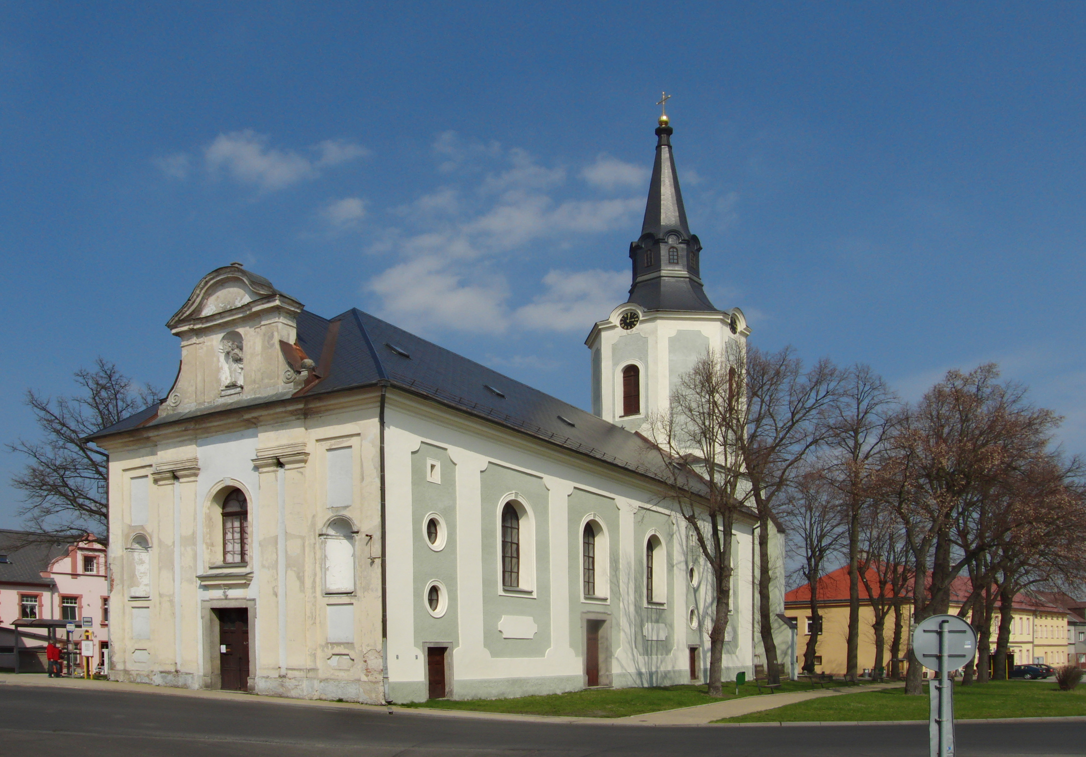 Church of Saints Peter and Paul (Hroznětín), cultural monument